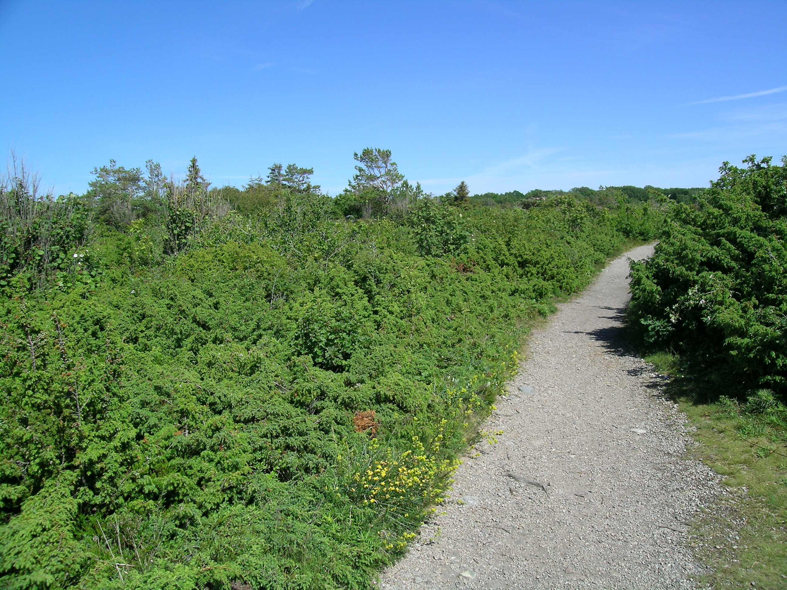 Juniper shrubs at Mølen, Larvik, Norway.